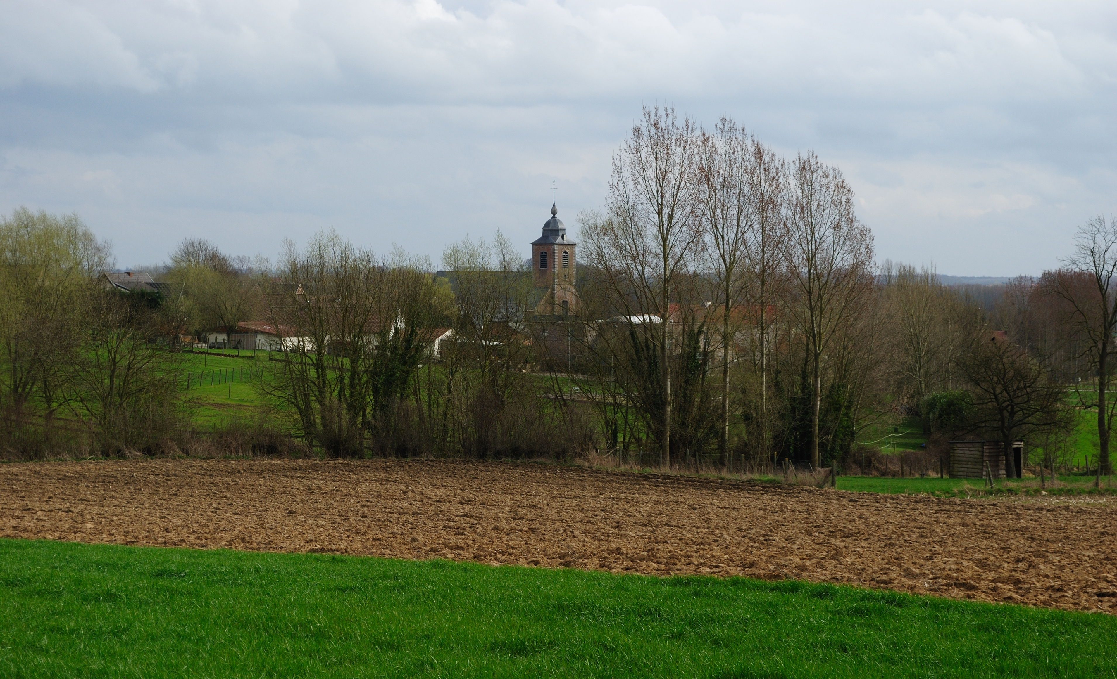 View towards the village of Vollezele (commune of Galmaarden, Belgium) from a hillslope in the Northwest. Nikon D60 f=55mm f/8 at 1/400s ISO 200. Processed using Nikon ViewNX 1.5.2 and Gimp 2.6.6.